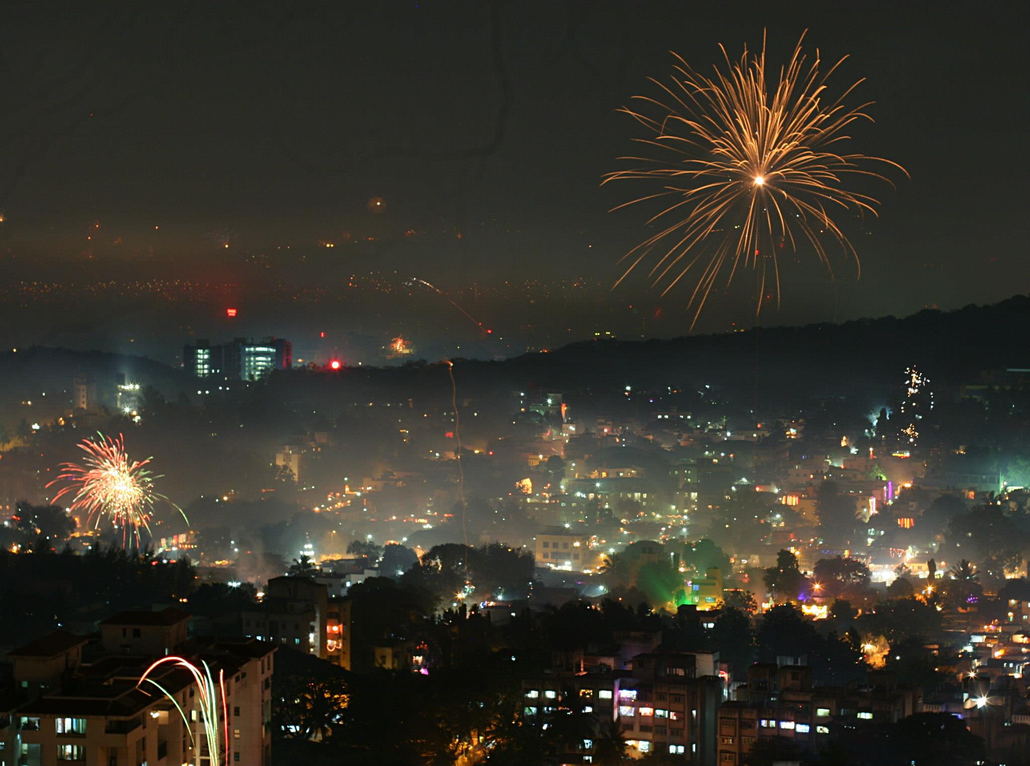 The fireworks over Pune on Diwali, 2012